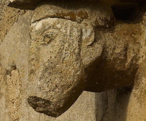 Homme barbu,modillon, façade occidentale, église de Civaux.